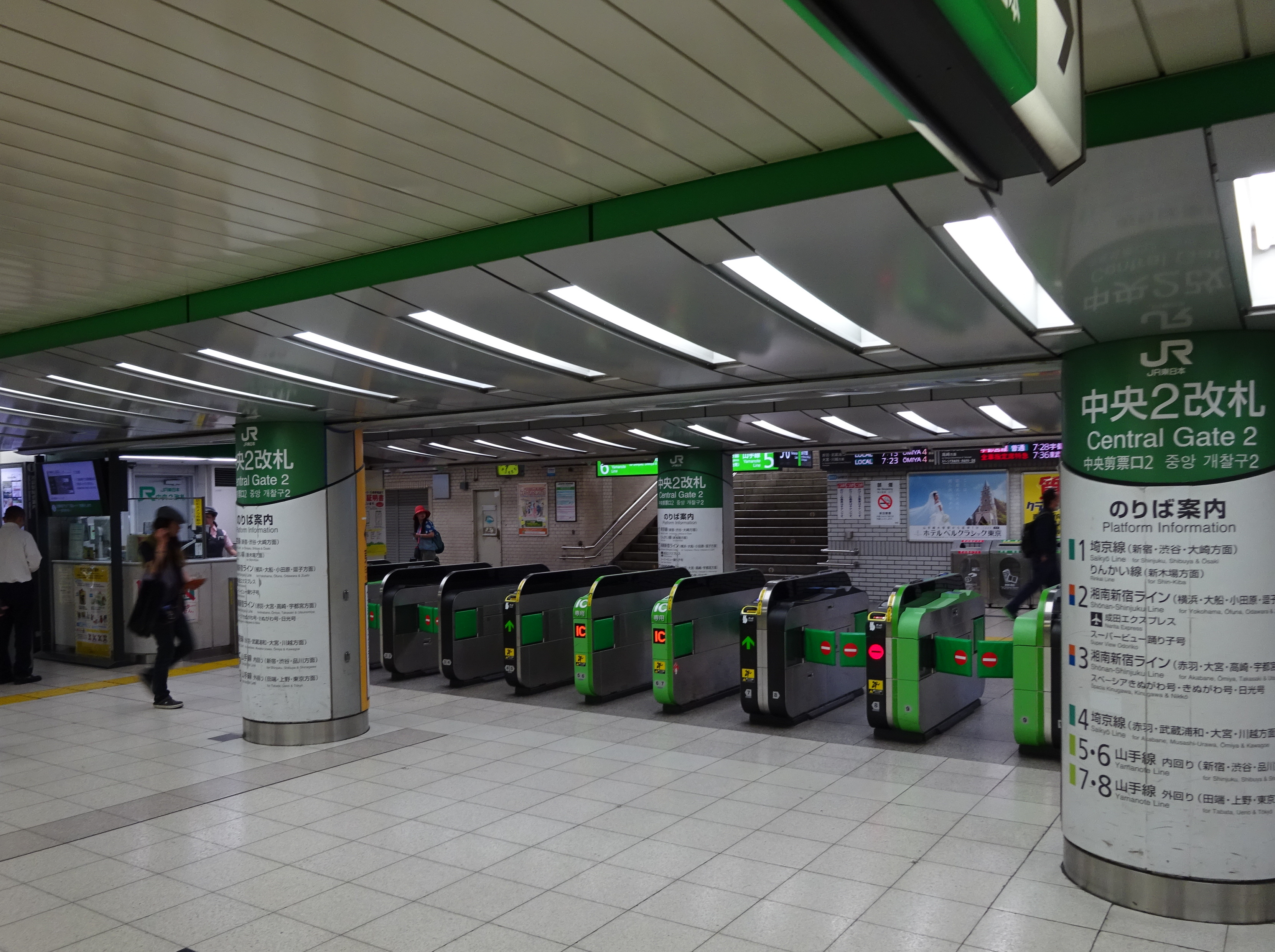 The Central No. 2 Gate ticket barriers leading to the JR East platforms at Ikebukuro Station in Tokyo